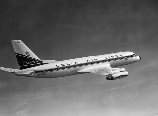 A Delta Air Lines Convair in flight, in 1960 shortly after delivery.